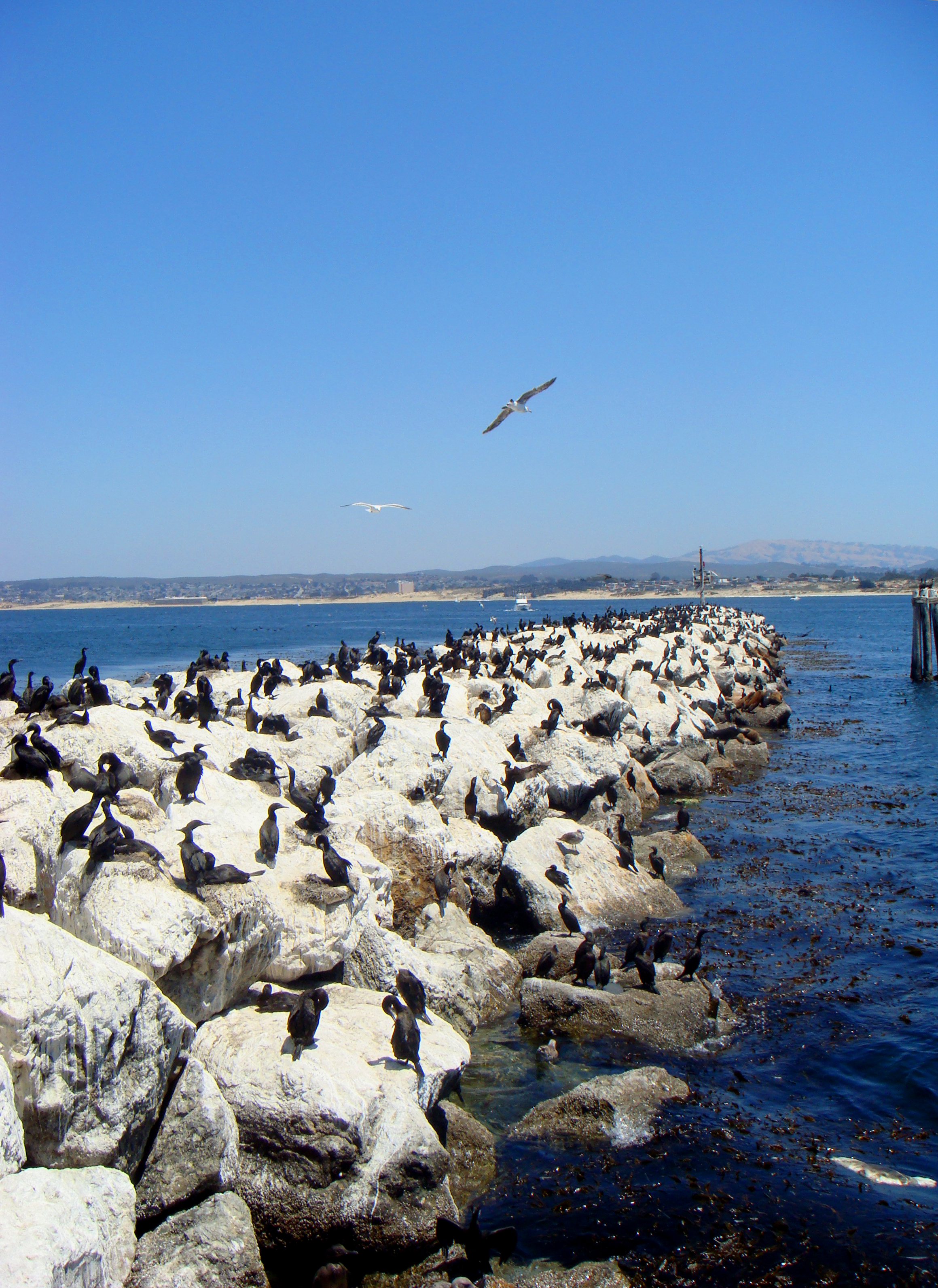 Rock wave break with birds, Monterey Cailfornia